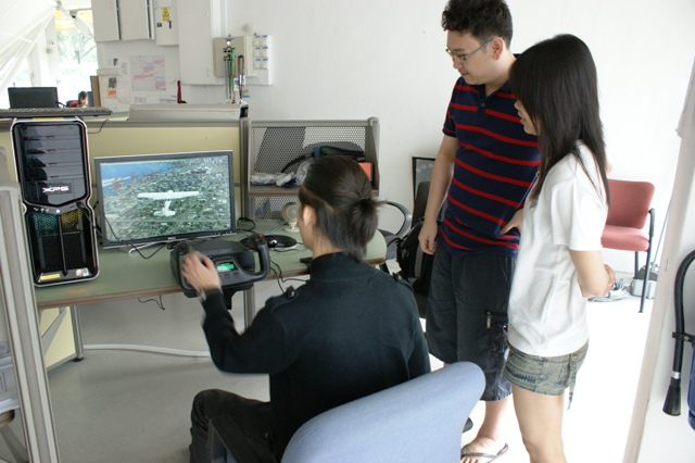 Students working on a flight simulation computer program (MS ESP 1.0) with yoke controls running on the Windows Vista Ultimate 64-bit operating system on a Dell XPS 730x computer.